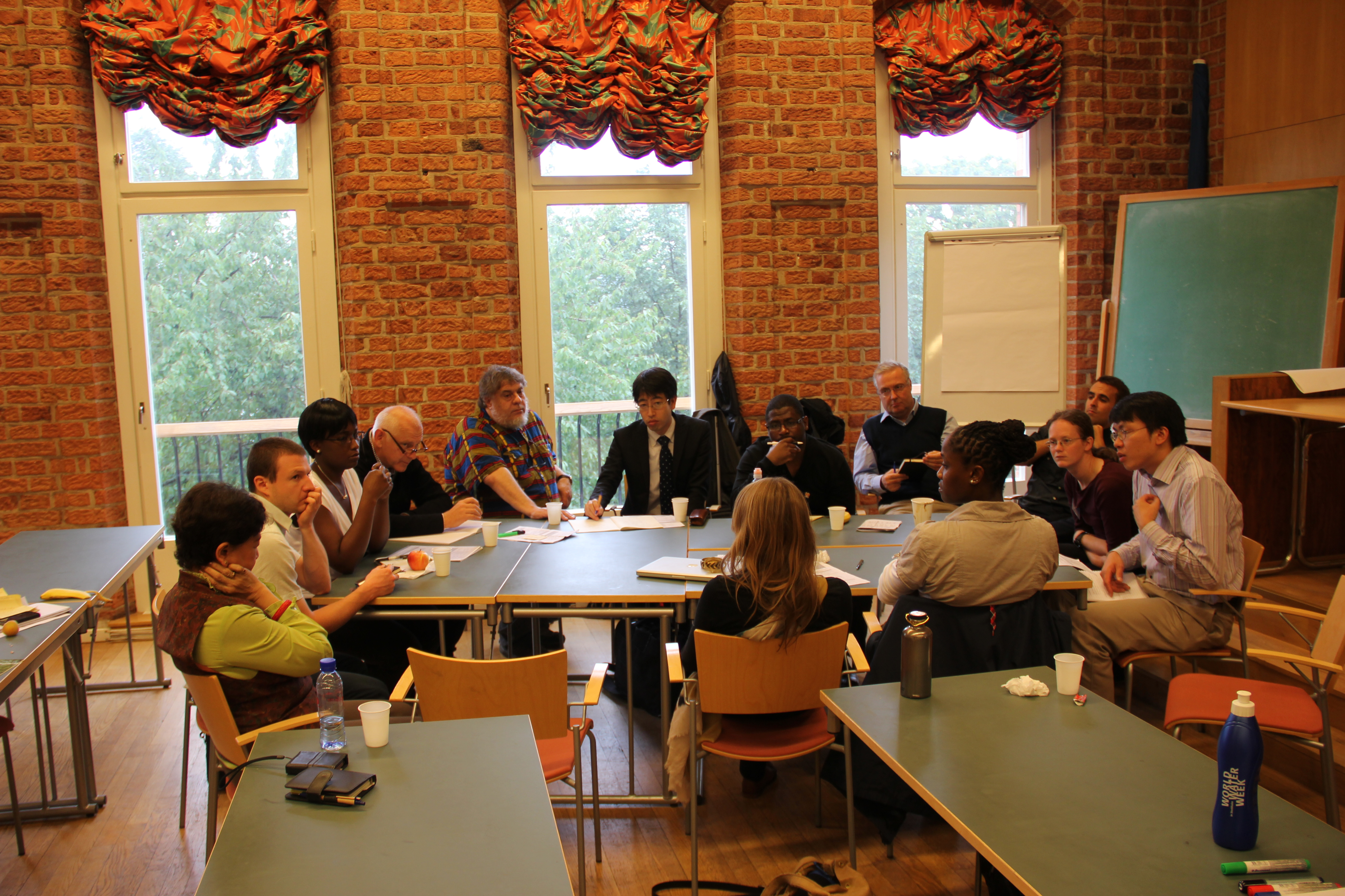 Meeting of working group 1 on capacity development at 16th SuSanA meeting